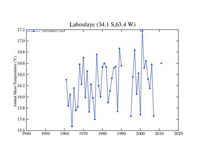 Climate graph of 1961 2012 air average temperaturas at Airport of Laboulaye, Córdoba province, Argentina